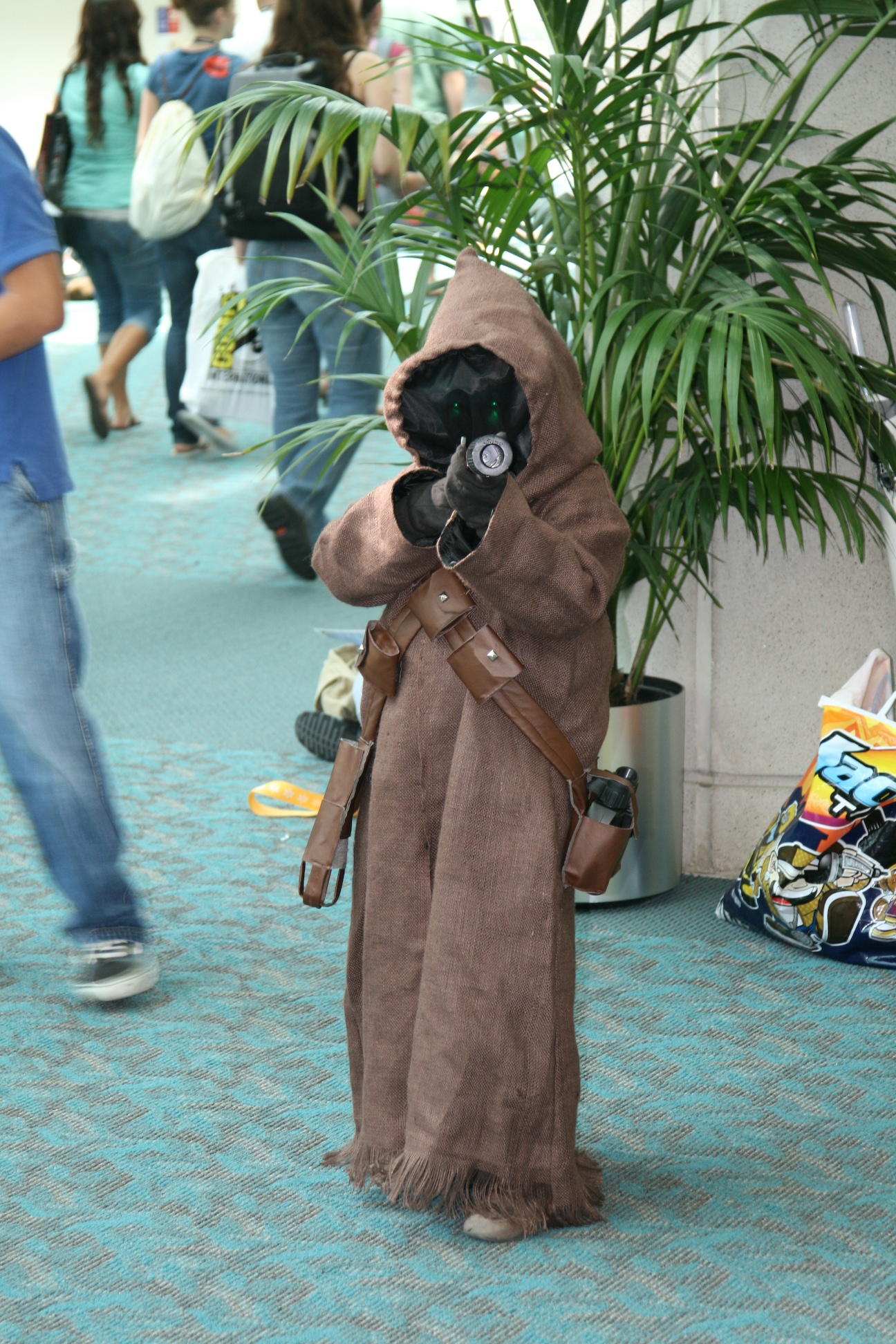 Jawa with a gun (San Diego ComicCon 2007). Orginal text: This jawa was just about perfectly sized.